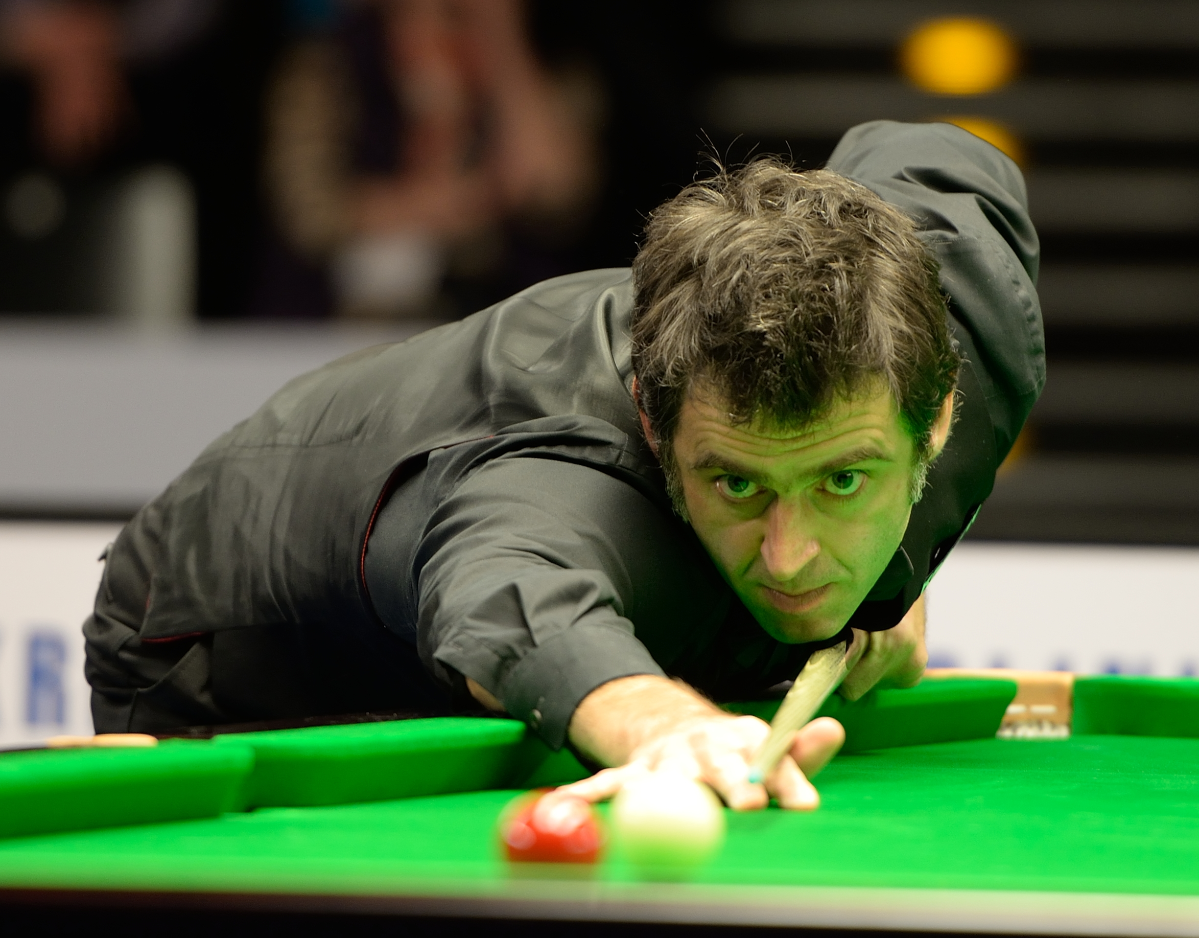 Picture taken in Berlin during the Snooker German Masters in 2015. Ronnie O’Sullivan.